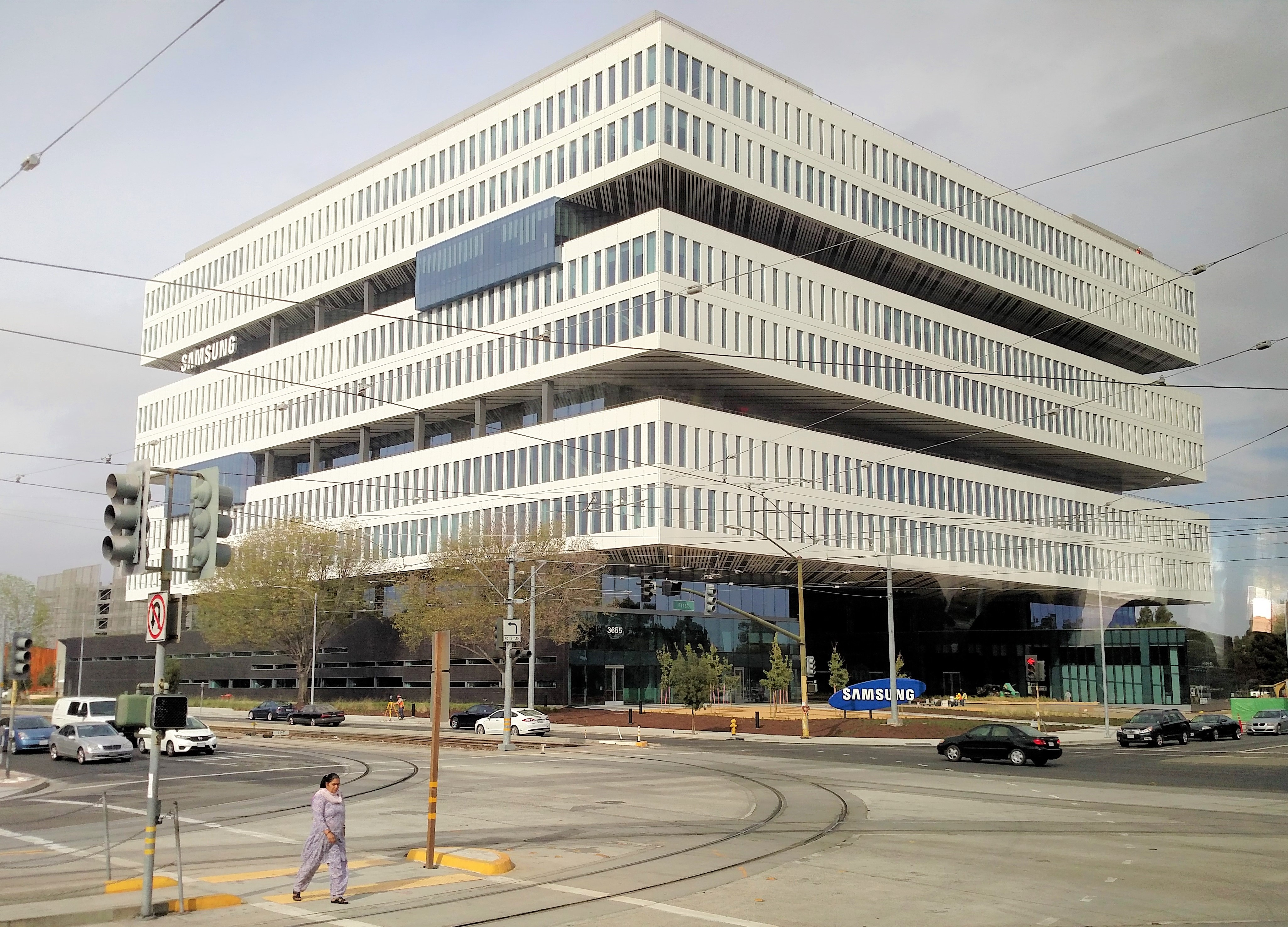 Photo by Christopher Ulrich